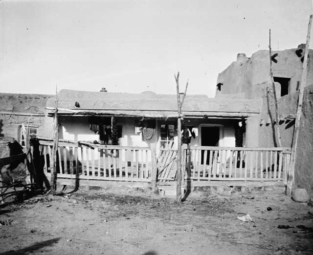 Santa Clara pueblo house with fence / Poley. Poley, H. S. (Horace Swartley) CREATED/PUBLISHED 1910. SUMMARY Adobe structure with fenced porch and gate, posts, door and windows, clothing hangs from the porch roof, Santa Clara Pueblo, New Mexico. A young Native American (Tewa) girl, in a white dress, looks out from between the fence railing. URL